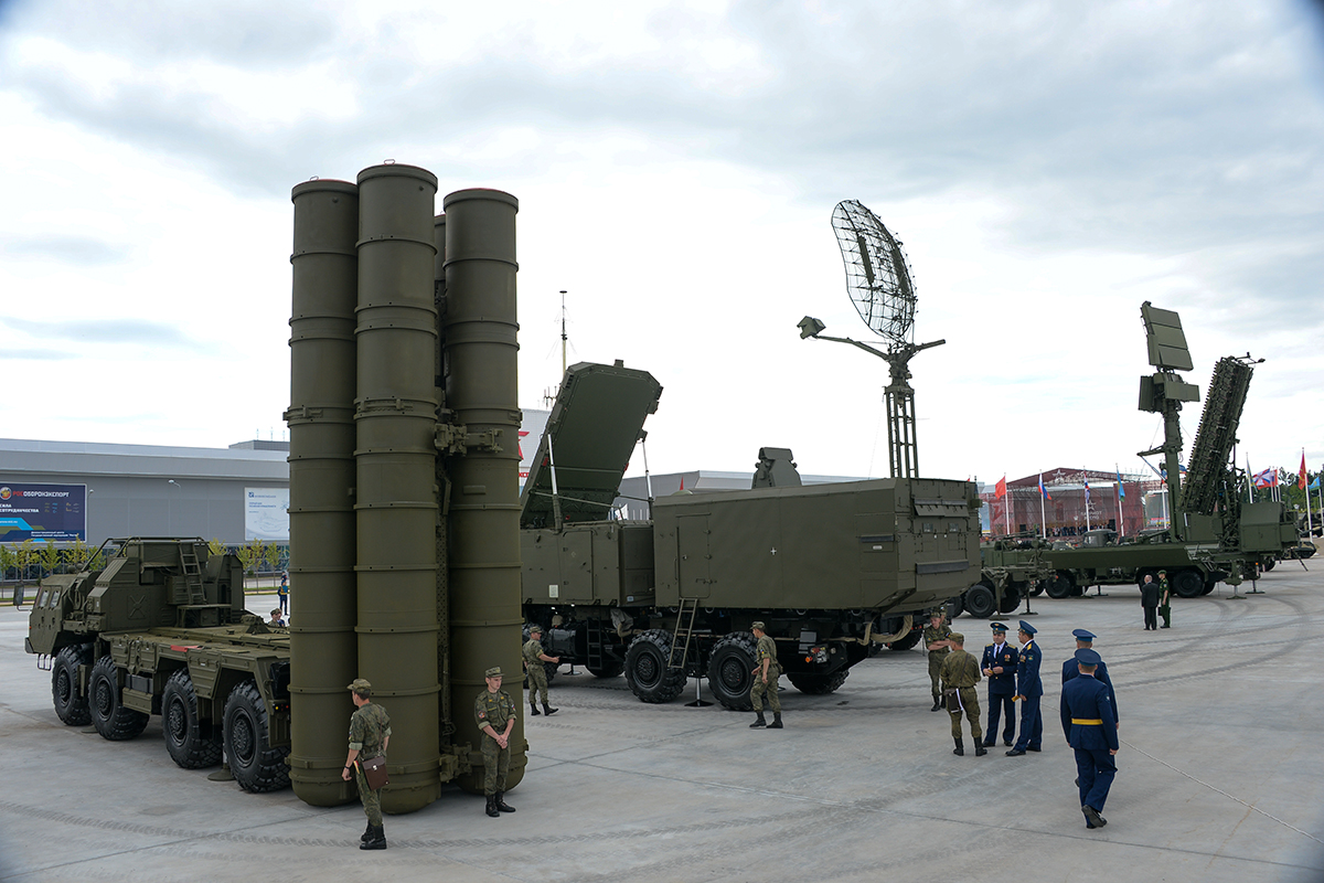 100th anniversary celebrating air defense of the Moscow.